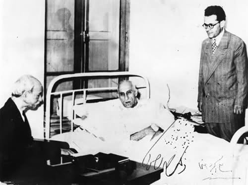 Ali Akbar Dehkhoda visiting Iranian prime minister Dr Mohammad Mosaddegh